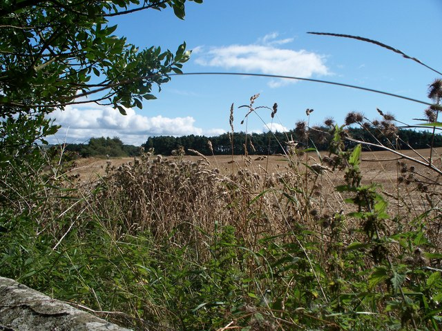 The Battle site of Hedgley Moor In mid April 1464, Sir John Neville was marching North to attend meetings with Scottish envoys at Newcastle. His popularity meant that supporters flocked to his banner throughout the journey and by the time he left Newcastle, he was in charge of an army numbering five of six thousand men. At Hedgley Moor on the 25th of April he met a rebel force, consisting mainly of Lancastrians the King had pardoned, returned to their true colours. The Duke of Somerset commanded the Lancastrians and amongst their number were Sir Ralph Percy, Lord Roos, Hungerford, and Grey. The Lancastrian army was five thousand strong, but morale was not as high as in the Yorkish camp. The battle began with the normal exchange of archer fire between the two armies. Montagu then advanced across the 1,500 yards of moor land, only to be forced to halt and readjust his lines when the Lancastrian left flank, under Lord Roos and Hungerford, some 2,000 men faltered, broke and scattered. The whole Lancastrian force gave way when the Yorkists clashed with their line. Pushed back by weight of numbers all but a few of the remaining Lancastrians fled the field. Sir Ralph Percy stayed with his household retainers and made a brave last stand. But, deserted by the rest of the army, including all the other commanders he was soon slain.